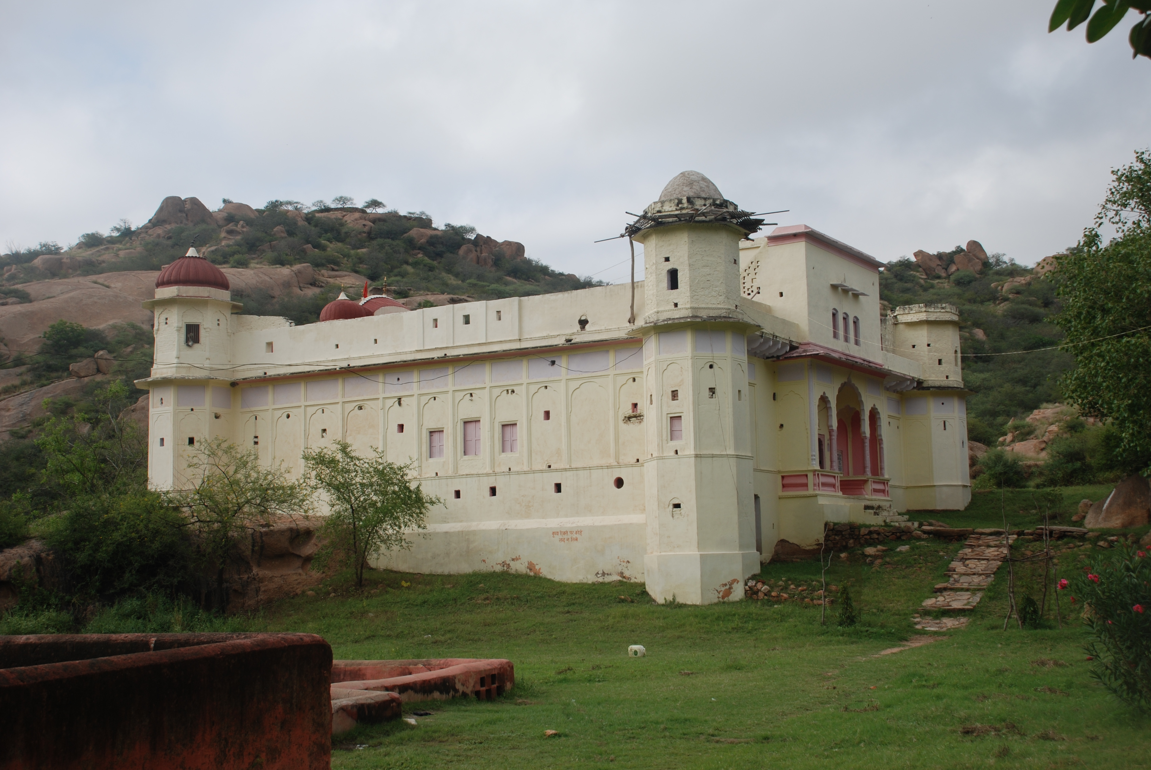 Picture of Chyvan Rishi Temple on Dhosi Hill constructed in 1890s by Bhargava community. Fort like temple has several rooms, a kitchen, a Dharamshala and is the most magnificient structure on the hill.